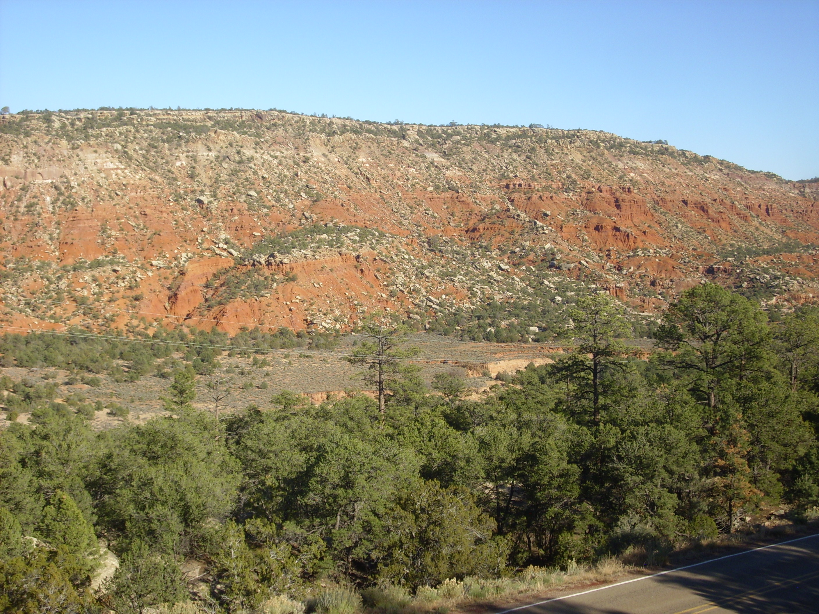 This image shows Mesa Montosa north of the village of Arroyo del Agua, New Mexico, USA. The mesa is red beds of the Cutler Group overlain by lighter sandstone beds of the Chinle Group.